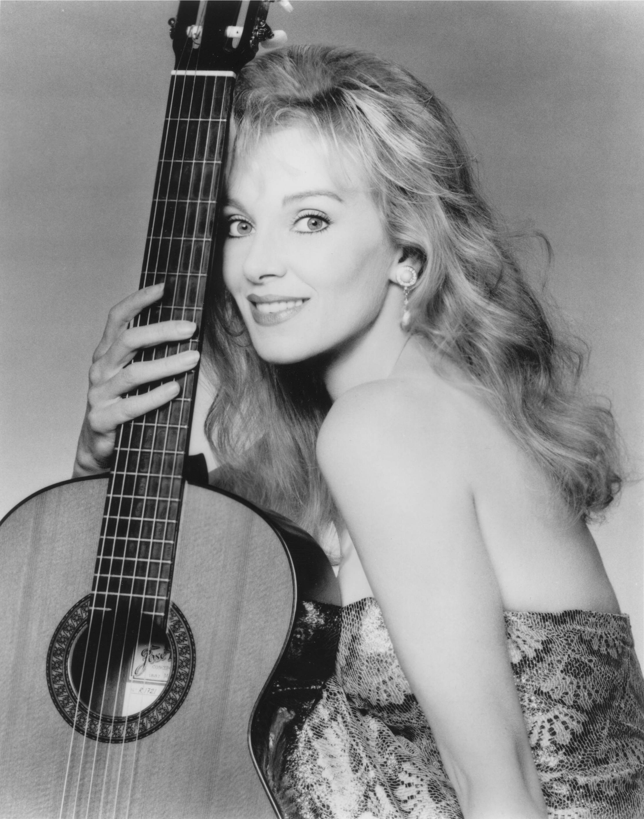 Liona Boyd file photo